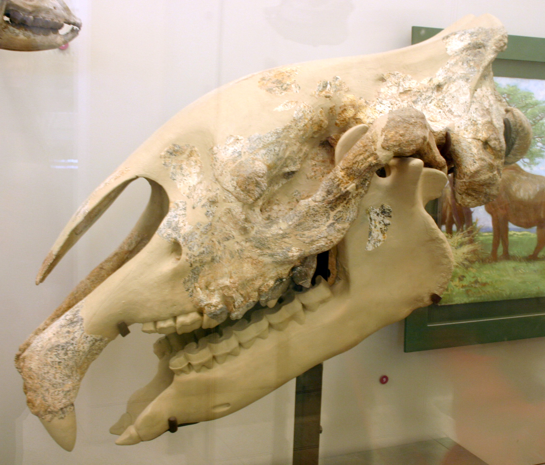 Indricotherium transouralicum skull (specimen AMNH 18650), one of the largest land mammals ever.